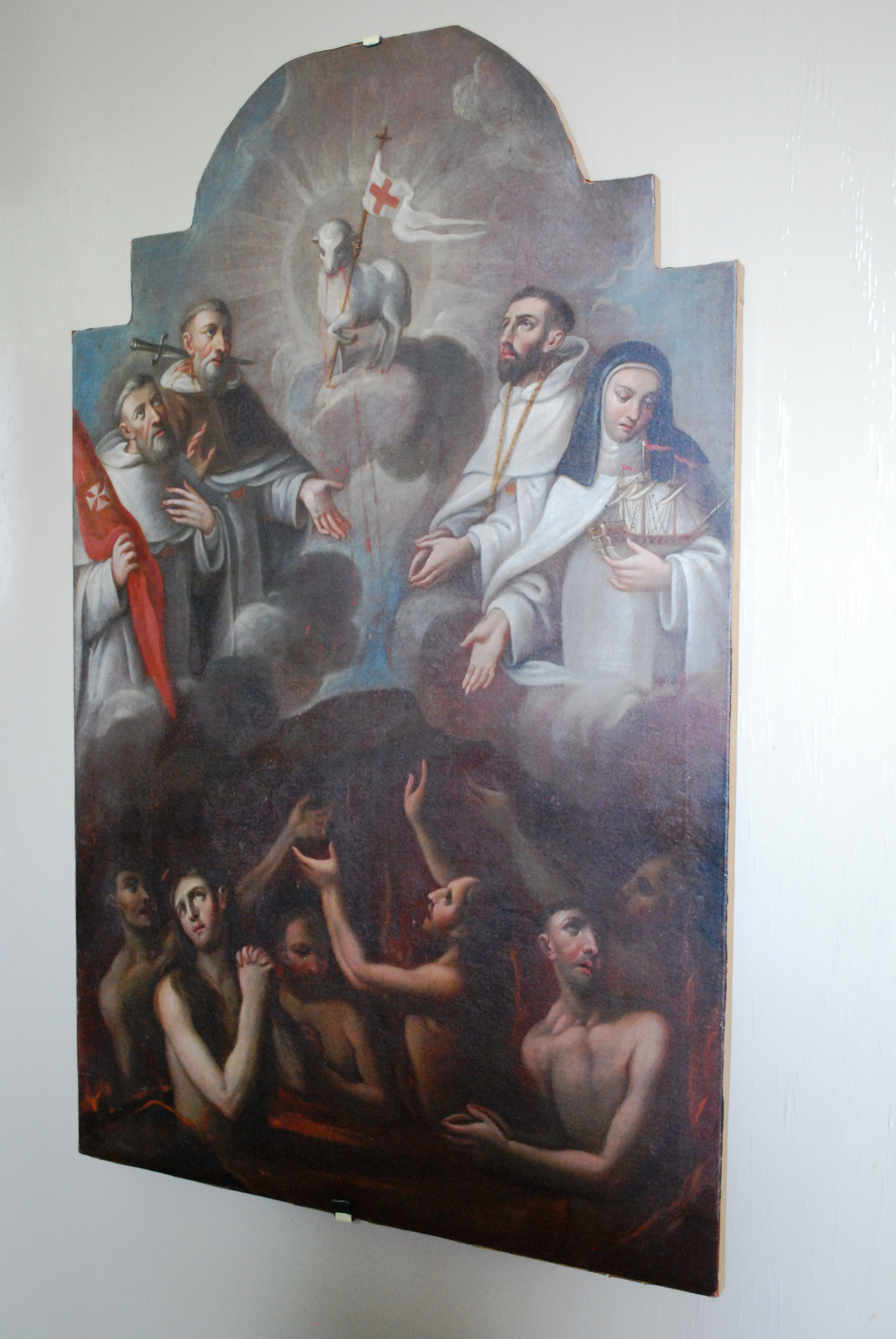 "Cordero Mistico y Santos Mercedarios" by unknown author from beginning of 18th century at the Viceregal Museum of the former monastery of Acolman, Mexico State, Mexico